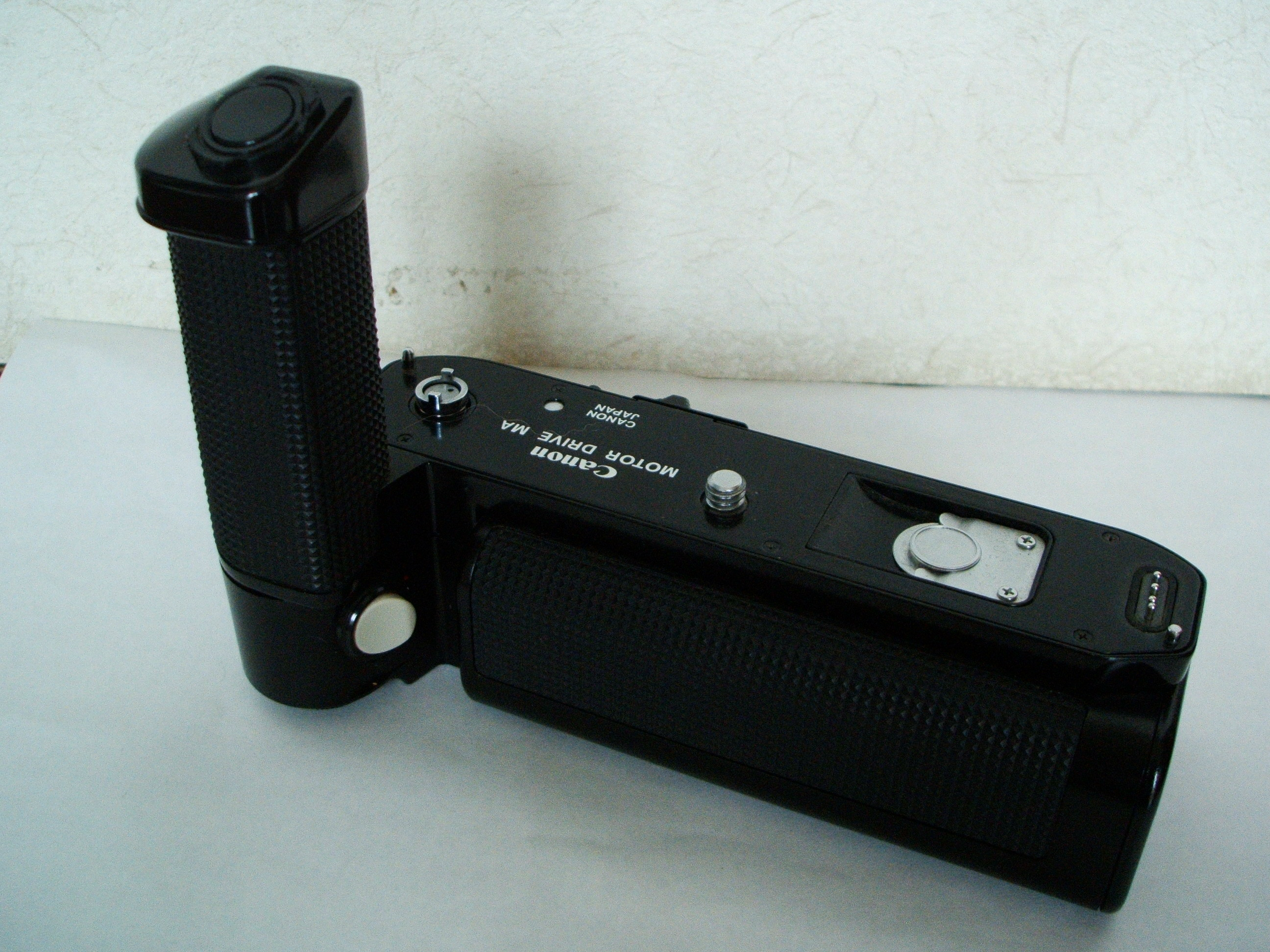 Canon Motor Drive MA